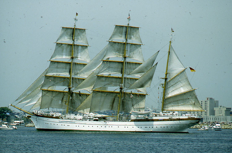 Title: Tall Ship in Boston Harbor Creator: Peter H. Dreyer Date: 1980 May 30 Source: Collection 9800.007, Peter H. Dreyer slide collection File name: 9800007_364 Photographer: Peter H. Dreyer Rights: Public Domain, Please credit Peter H. Dreyer Citation: Peter H. Dreyer slide collection, Collection #9800.007, City of Boston Archives, Boston